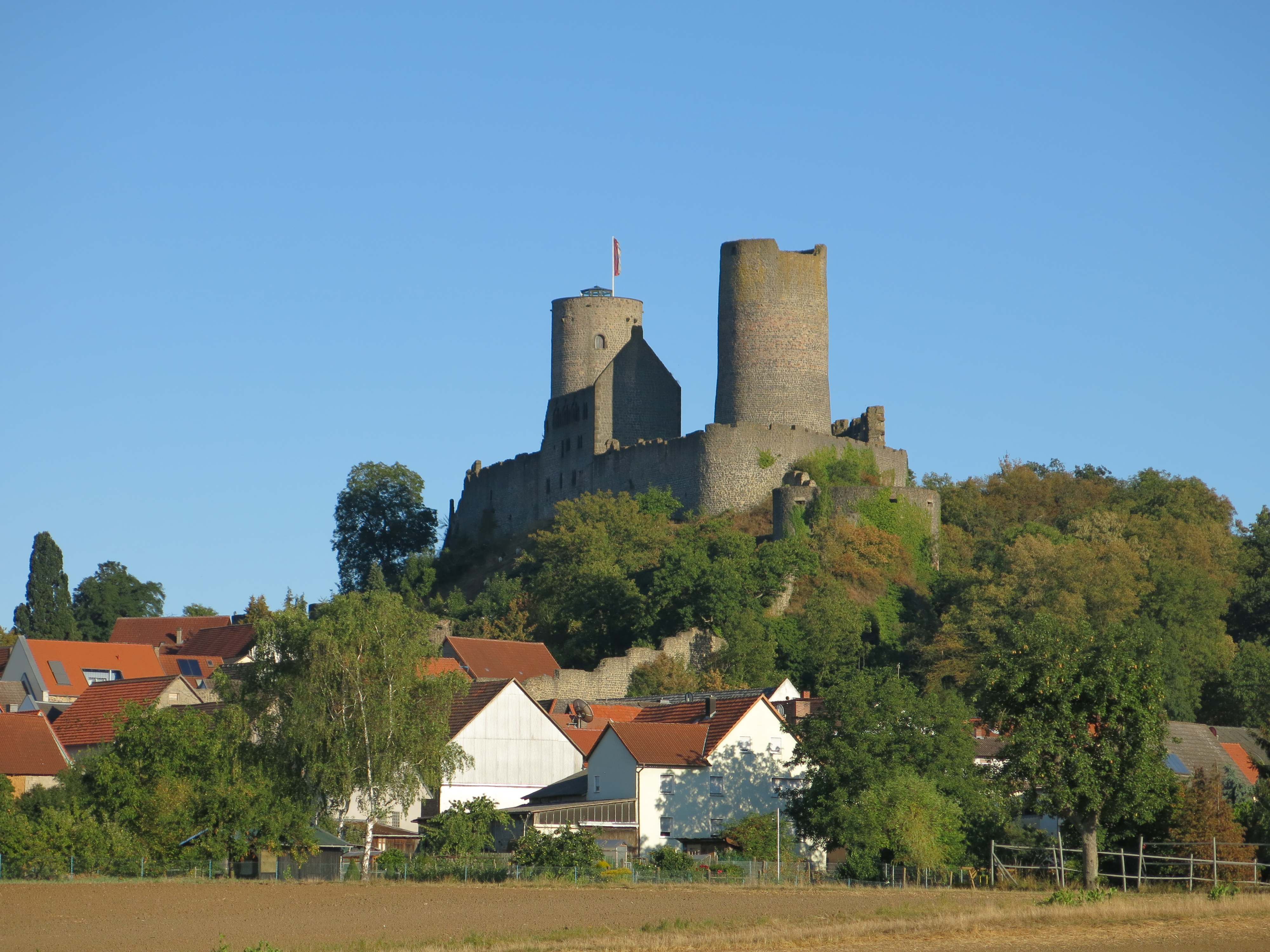 Münzenberg Castle, seen from northwest